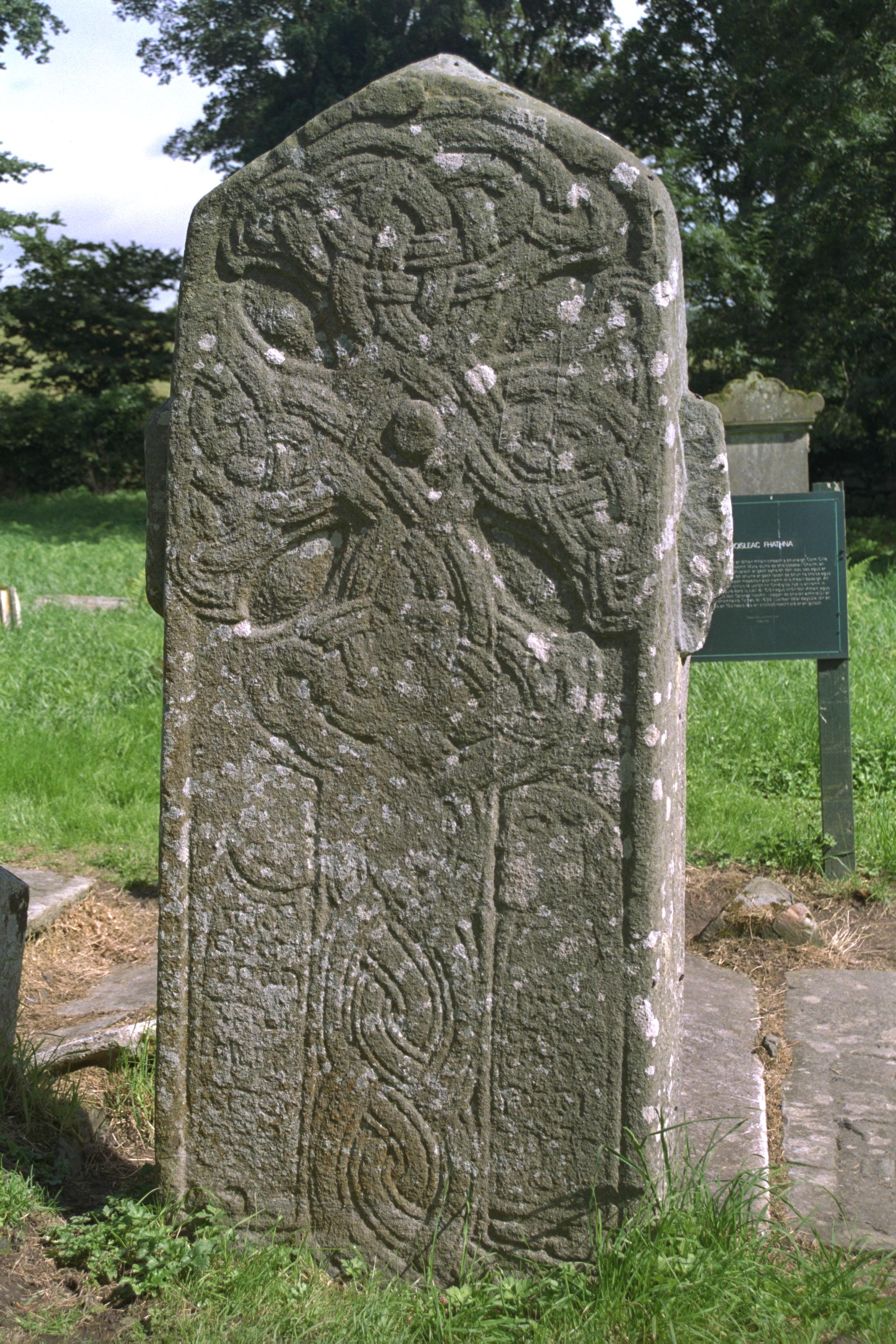 St. Mura Cross Slab. According to Peter Harbison, this 2.10m tall slab is due to its uneven arm-stumps to be seen as a first step in the development from cross slabs towards high crosses.